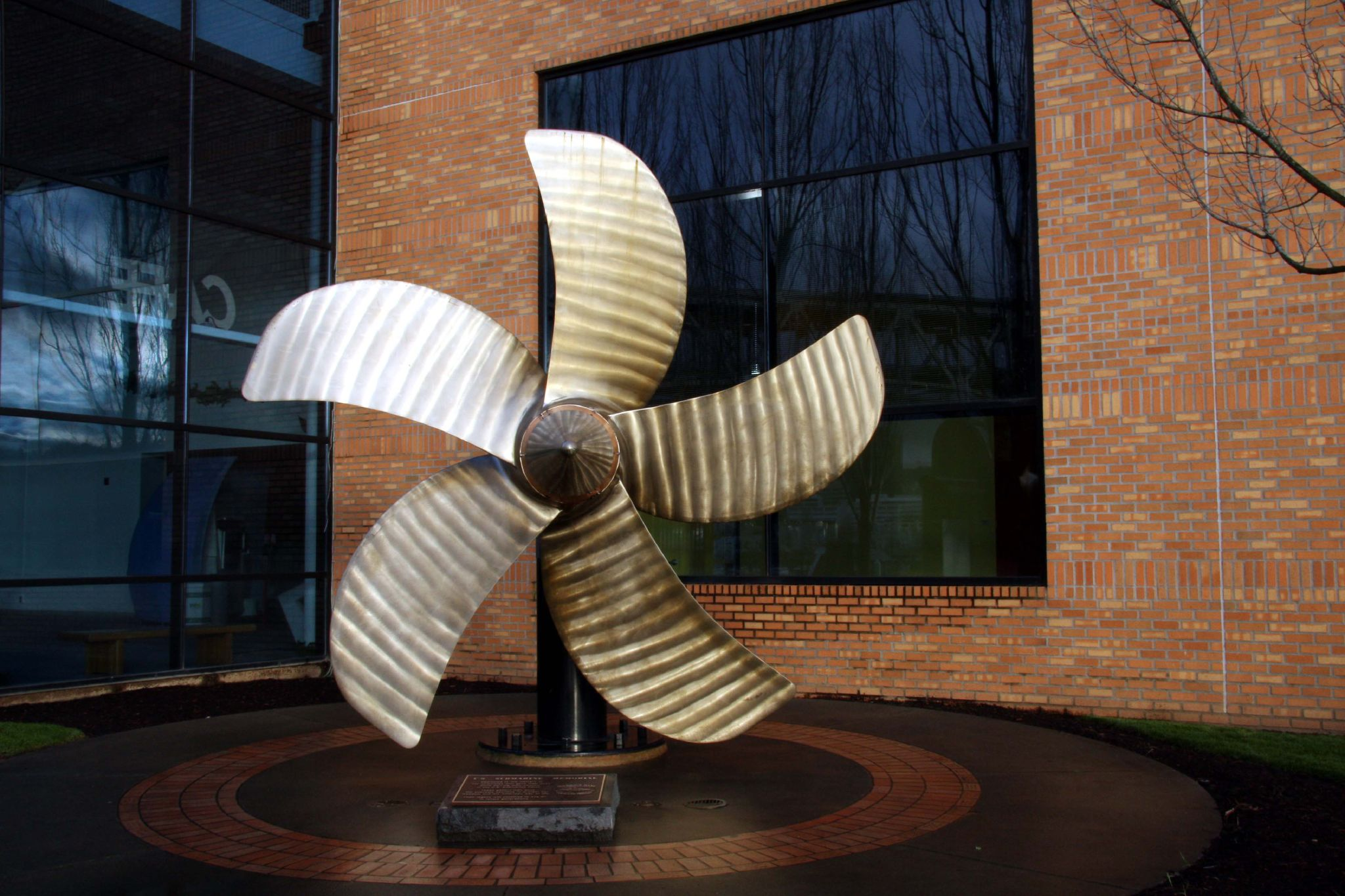 Propeller of submarine USS Blueback, located at OMSI at Portland